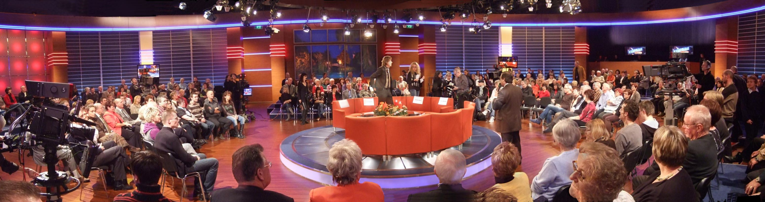 This photo shows the studio of the television show "Riverboat" shortly before starting transmission with Jörg Kachelmann.